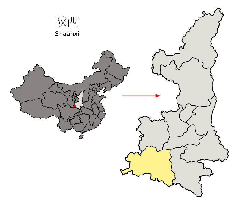 Location of Hanzhong Prefecture (yellow) within Shaanxi Province of China Map drawn in december 2007 using various sources, mainly : Shaanxi Province administrative regions GIS data: 1:1M, County level, 1990 Shaanxi Counties map from